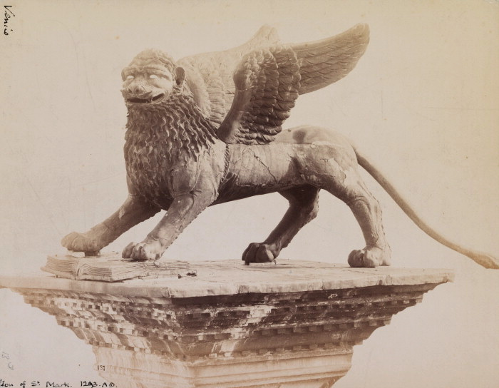 Carlo Naya (1822-1881) - "Venice- Lion in Saint Mark's square". Catalogue #: 157. 1870s. Today.